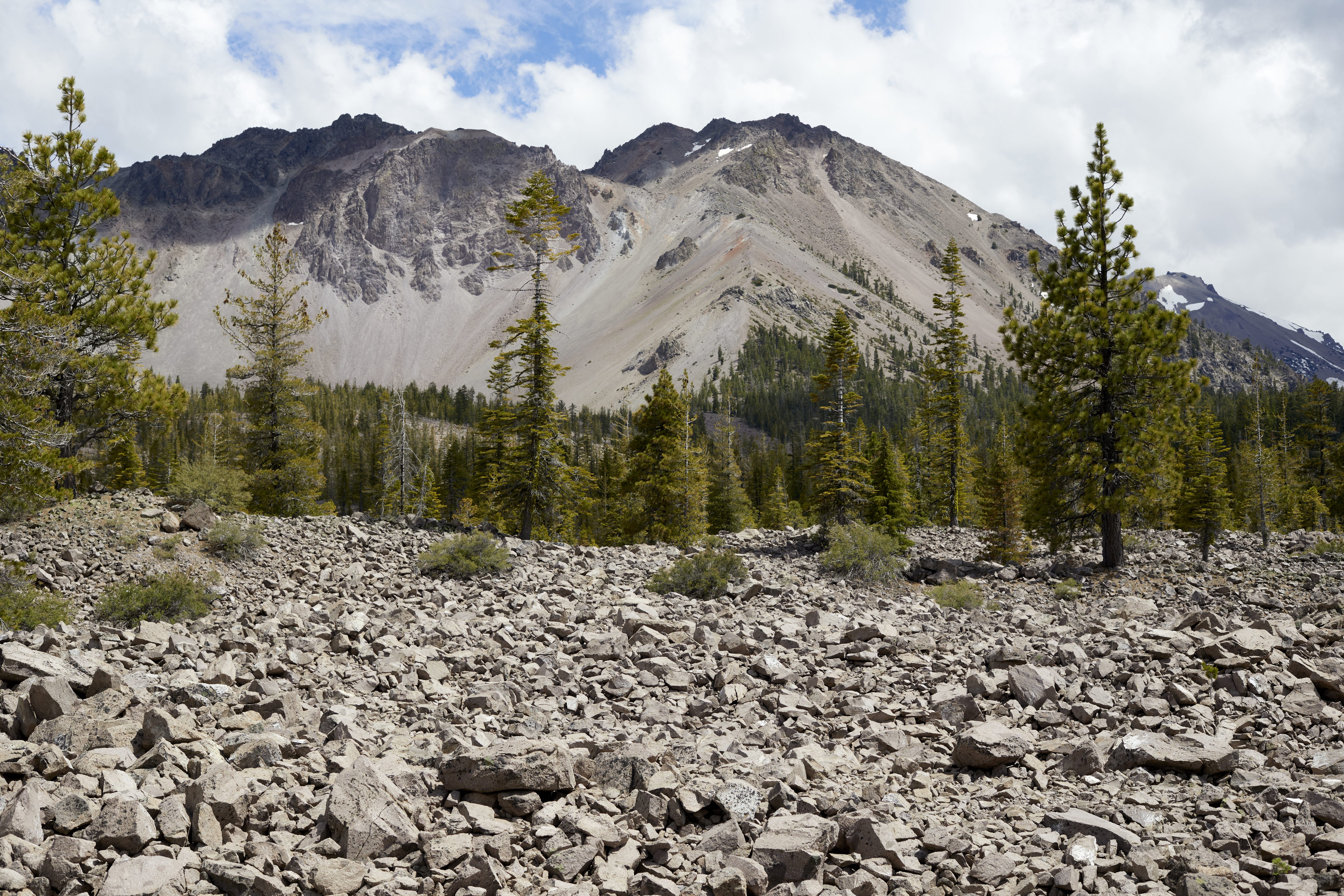 Chaos Crags lavadomes and Chaos Jumbles rock debris as seen from California State Route 89 on June 12, 2020. Chaos Jumbles are the remains of a rock avalanche that devastated the area when one of the Chaos Crags domes erupted about 350 years ago. Riding on a cushion of compressed air, the rock debris traveled at about 100 miles per hour on Chaos Crags’ northwest slope.